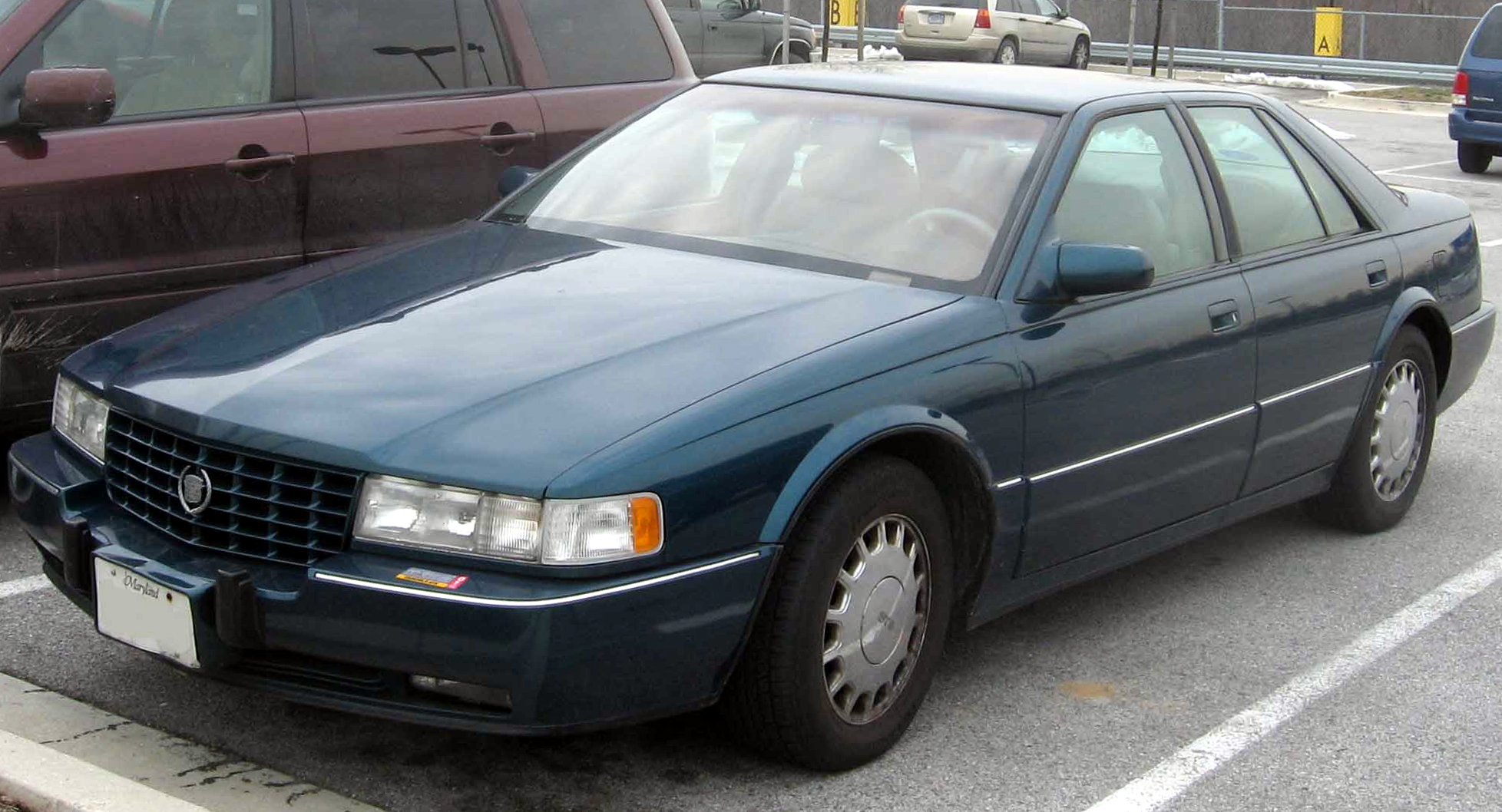 1995-1997 Cadillac Seville photographed in College Park, Maryland, USA.